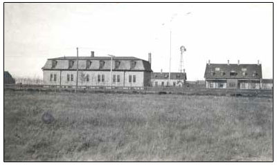 Photo in Regina Public Library Archives